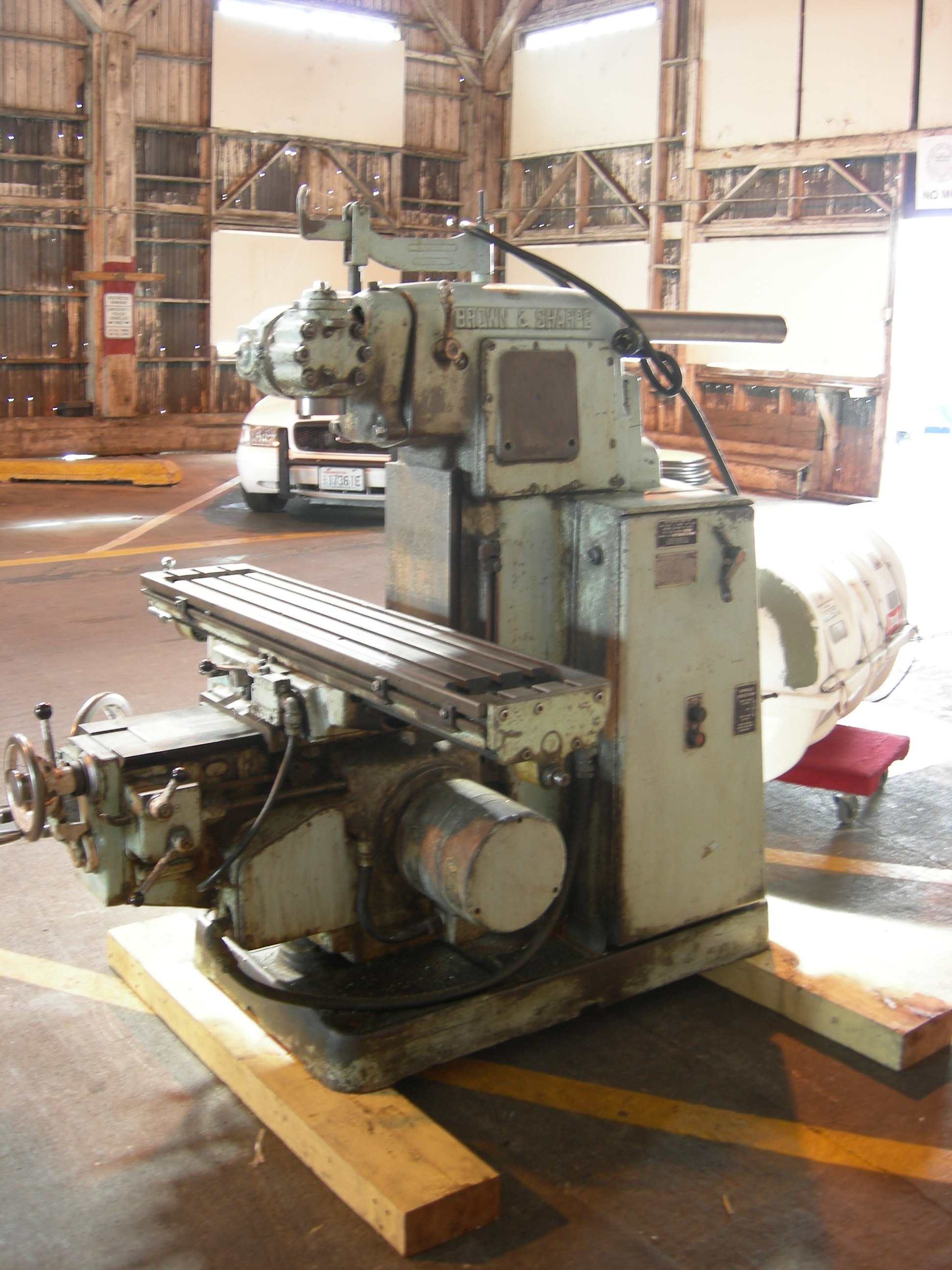 Machine at University of Washington Surplus, University of Washington, Seattle, Washington. According to WikipediaMaster this is a three axis (XYZ) milling or grinding machine.